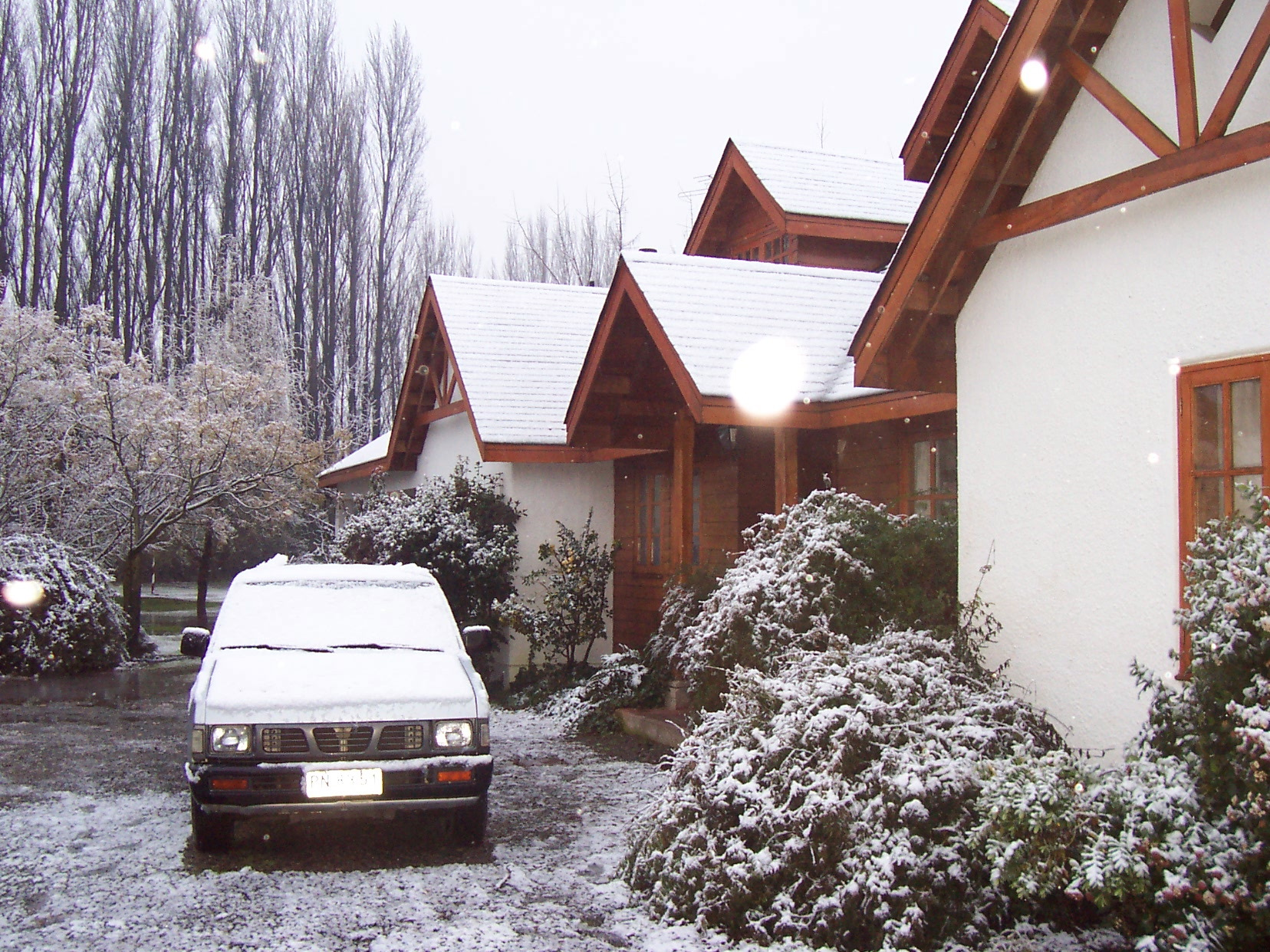 Snowfall in Linares, Chile